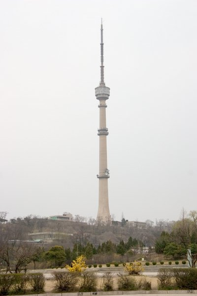 tv_tower in Pyongyan